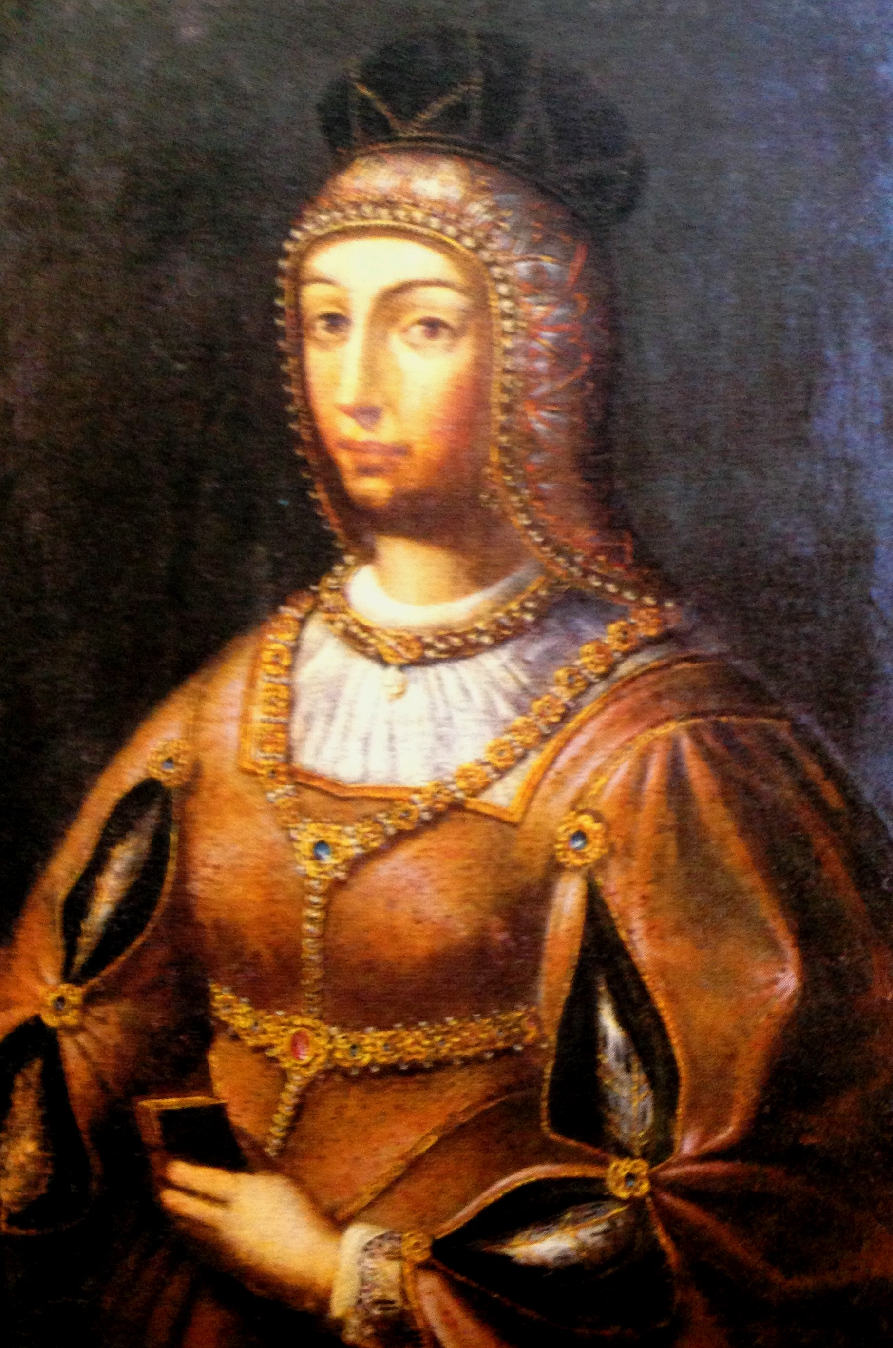 Portrait of King Manuel I by Henrique Ferreira (1720). Located at the Casa Pia Biblioteca Pina Manique, originally part of the Monastery of Belem royal portraits collection.